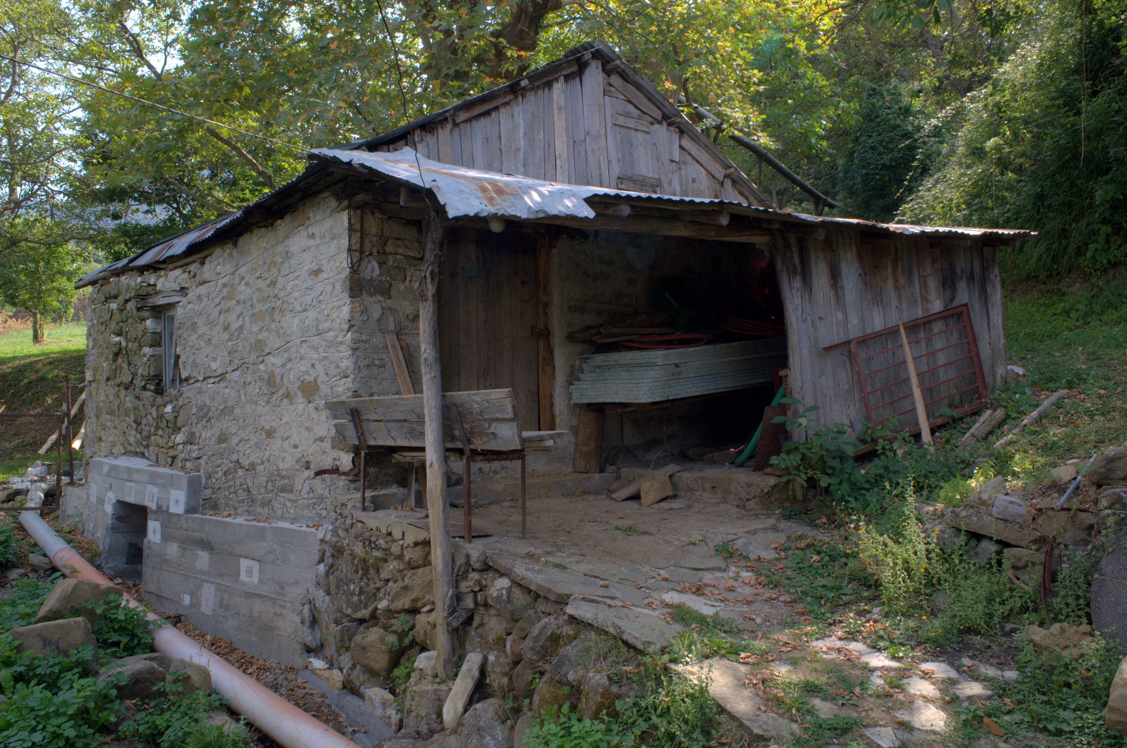 Old water mill (flour), Mavrilo, Fthiotida, Greece.